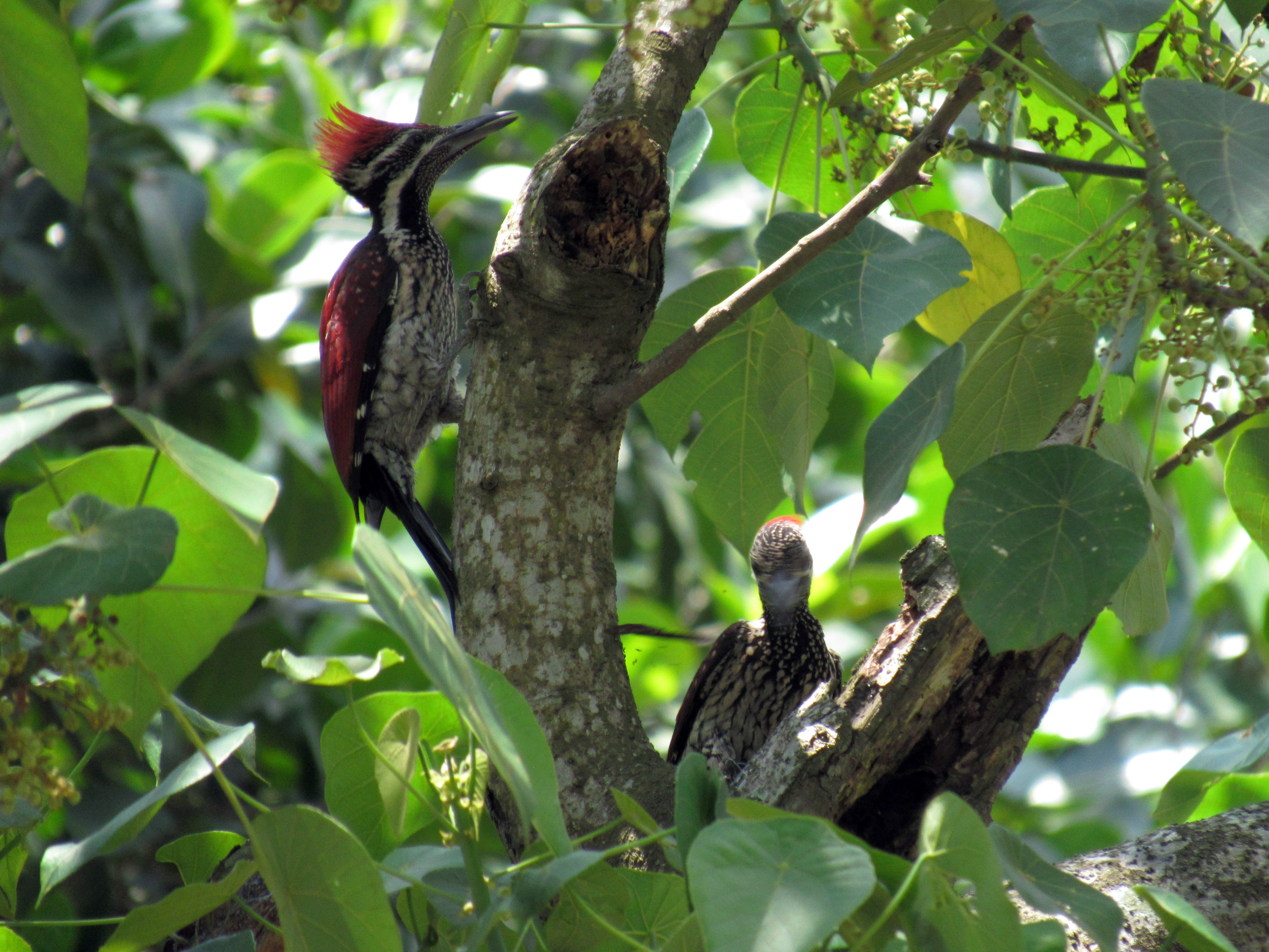 Male (left) female (right) red-backed flamebacks (Dinopium benghalense psarodes), Sri Lanka.